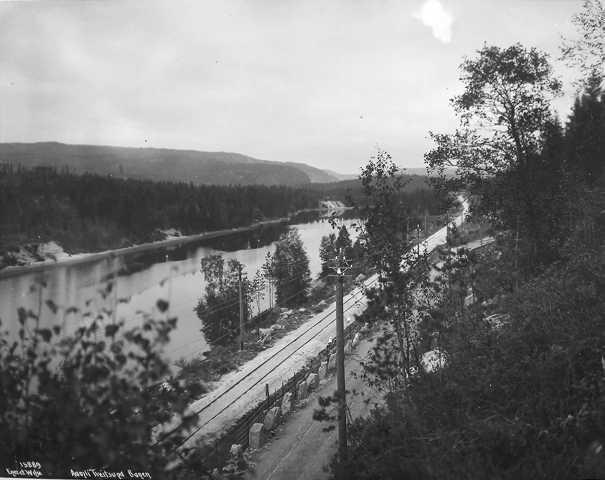 The Arendal or Treungen Line in Norway